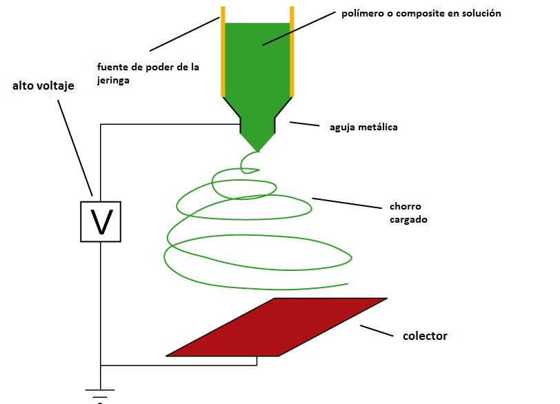 Electrospinning process for polymer production.